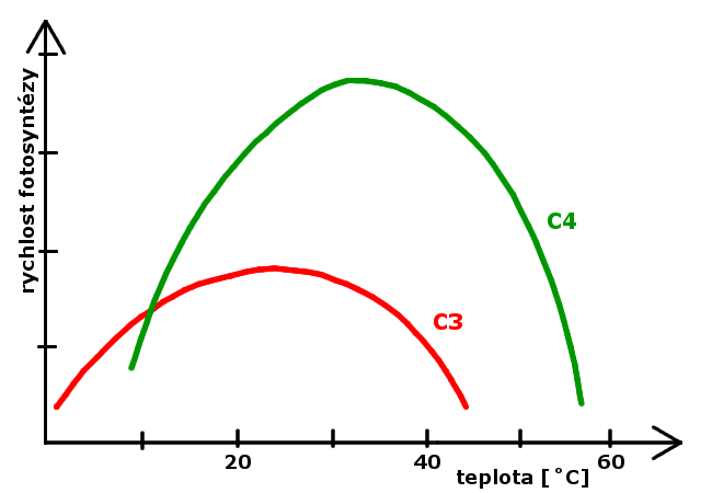 Photosynthesis - temperature graph